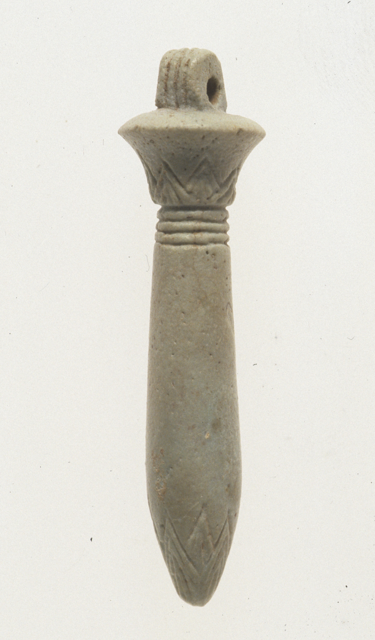 Amulet, Papyrus column